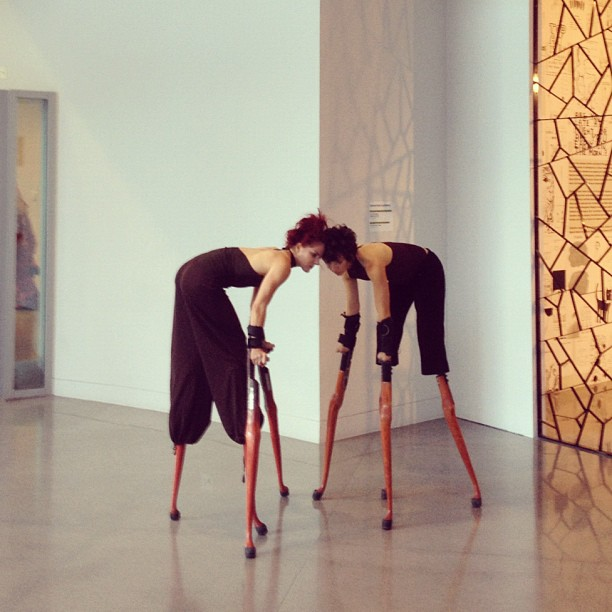 Lisa Bufano (on right) performs at the Yerba Buena Center for the Arts in San Francisco, California.